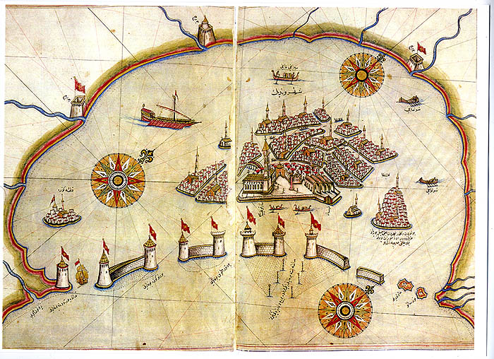 Venice in Italy on the Kitab-Ä± Bahriye (Book of Navigation) of Piri Reis